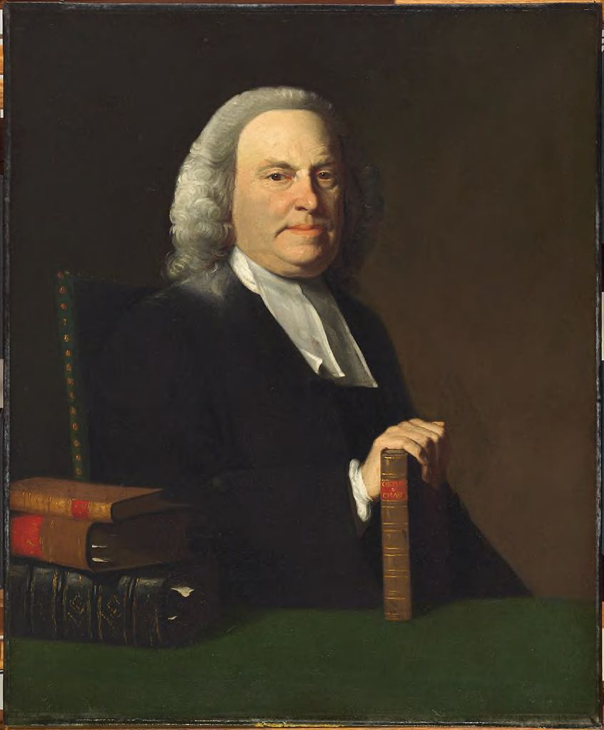 Portrait of Nathaniel Appleton (1693-1784)